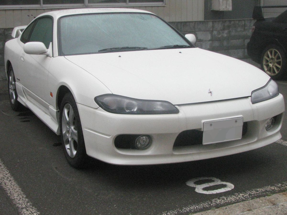 S15 Silvia Spec-R Aero. S15 Silvia Spec-R Aero. S15.